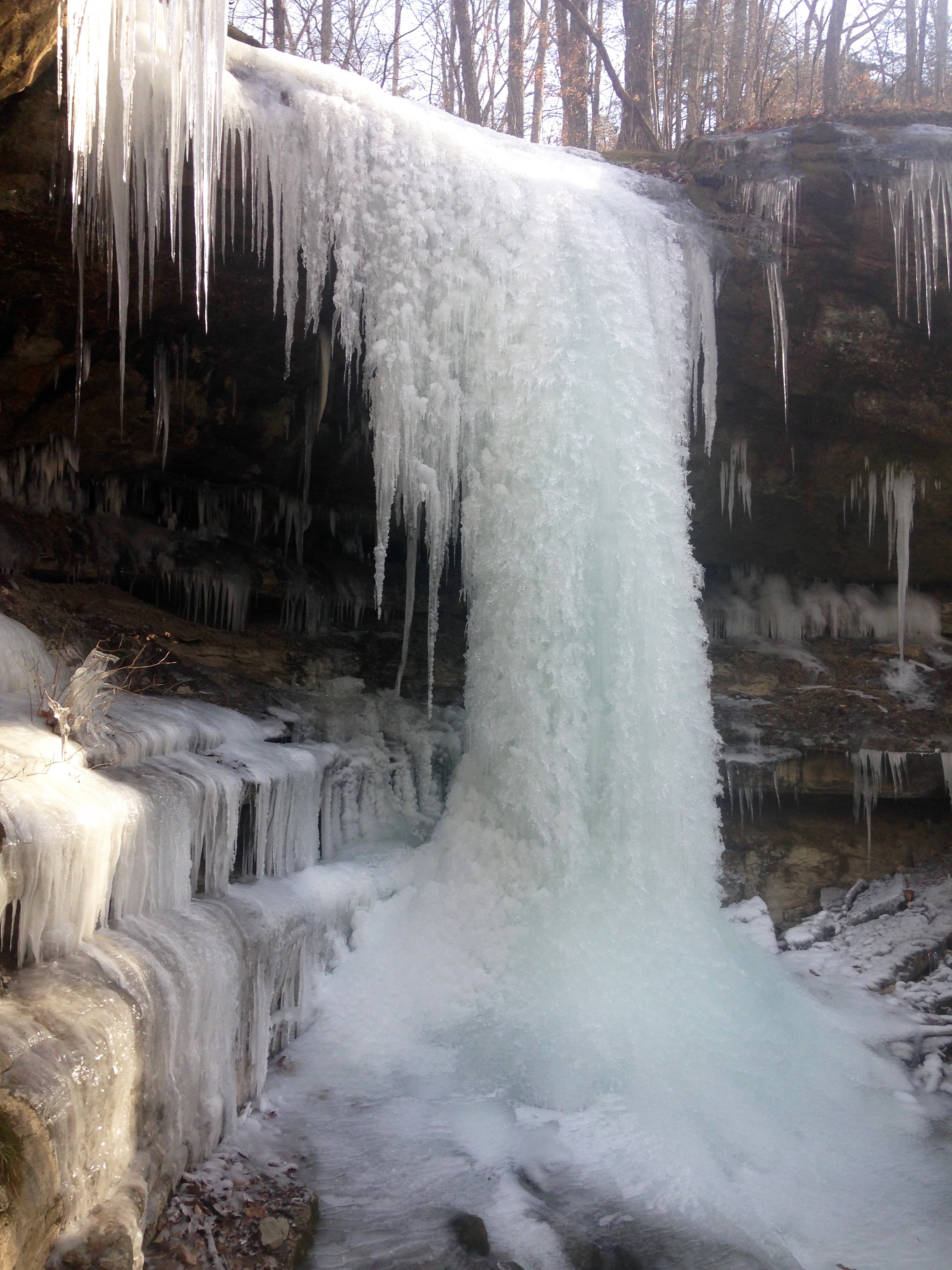 A frozen waterfall on the Brier Creek Trail at Nolin Lake State Park in Bee Spring, Kentucky. (USACE Photo by Mike Robertson)